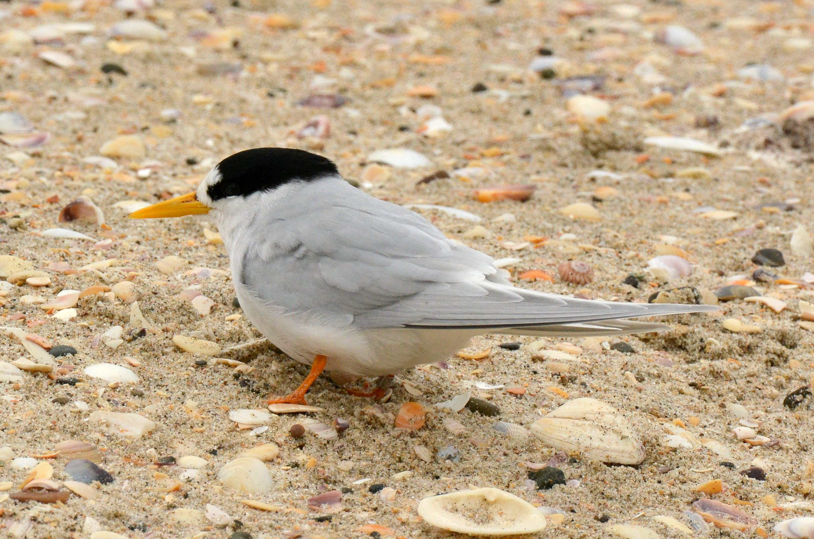 A New Zealand Fairy Tern or tara iti at Waipu River's estuary, New Zealand. The bird is an older adult male who at the time of the photo was not known to have bred - information from the bird's band.